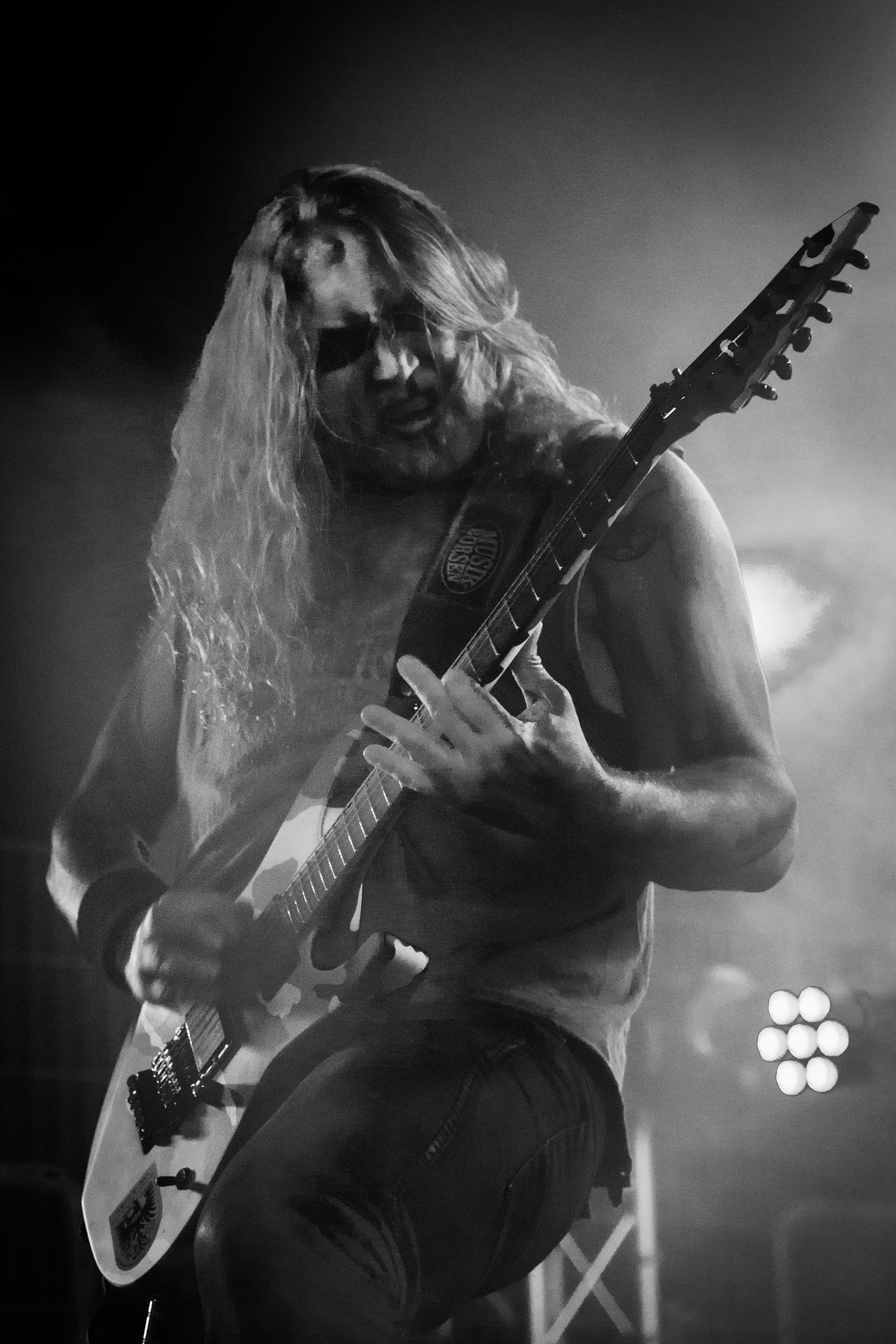 Marduk performing live at Eistnaflug 2016